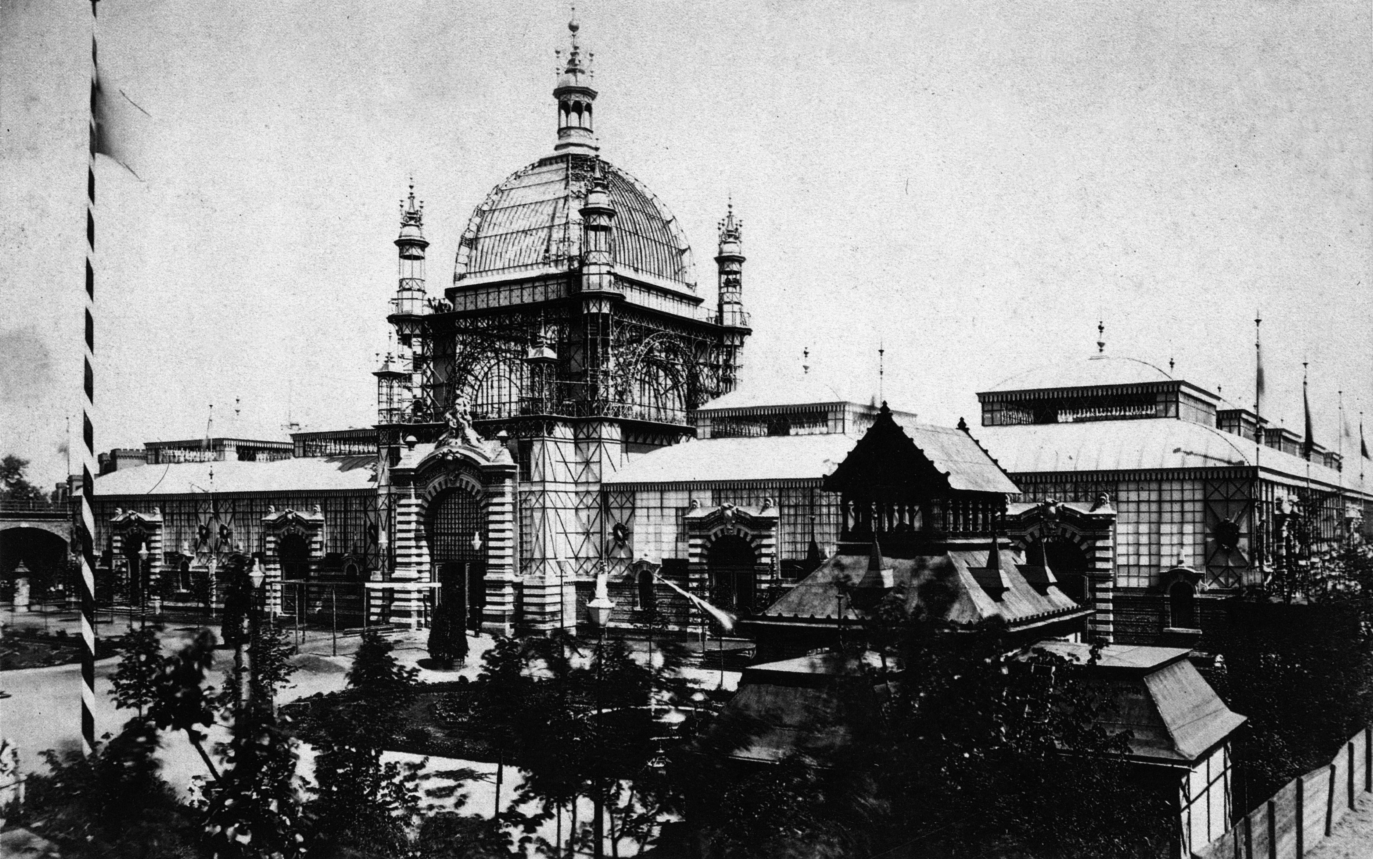 The ULAP Ausstellungspalast (“exhibition palace”) in Moabit, Berlin. The building was destroyed in an allied attack in 1943.